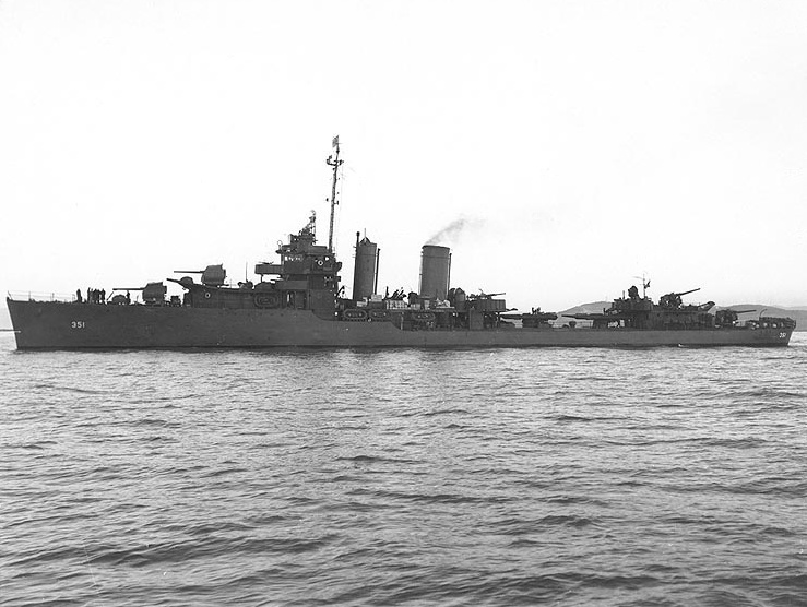 The U.S. Navy destroyer USS Macdonough (DD-351) off the Mare Island Navy Yard, California (USA), on 17 January 1943.